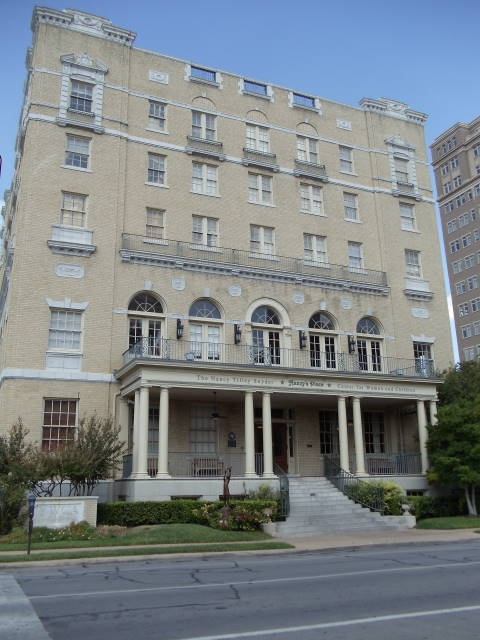 Fort Worth Elks Lodge 124